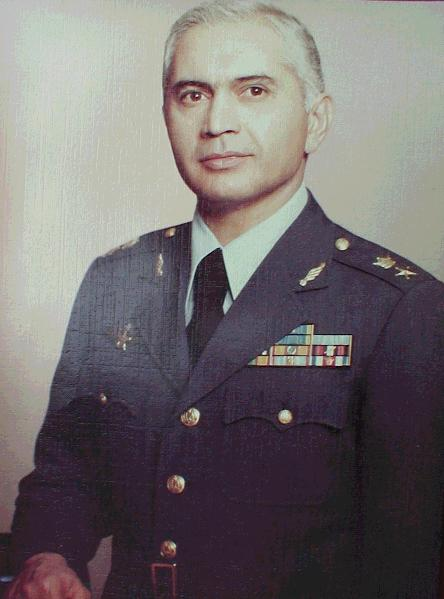 General Ayat Mohagheghi, Imperial Air Force Iran